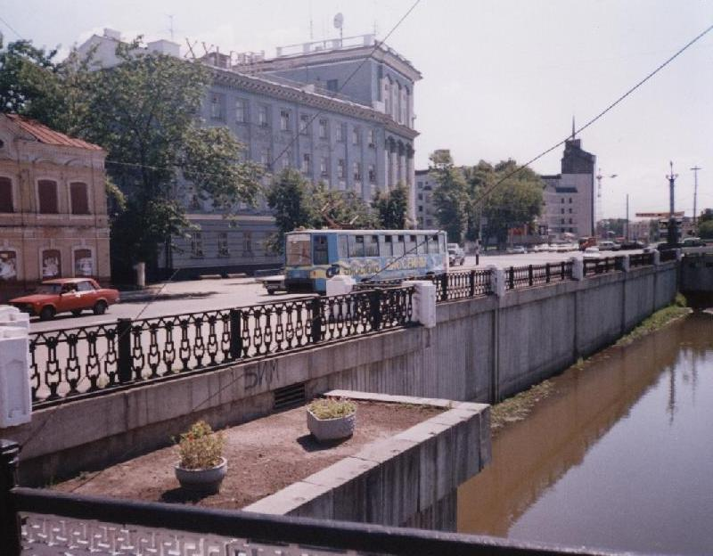 The Bolaq embankment. Afbeelding:Kazan Bolaq.jpg